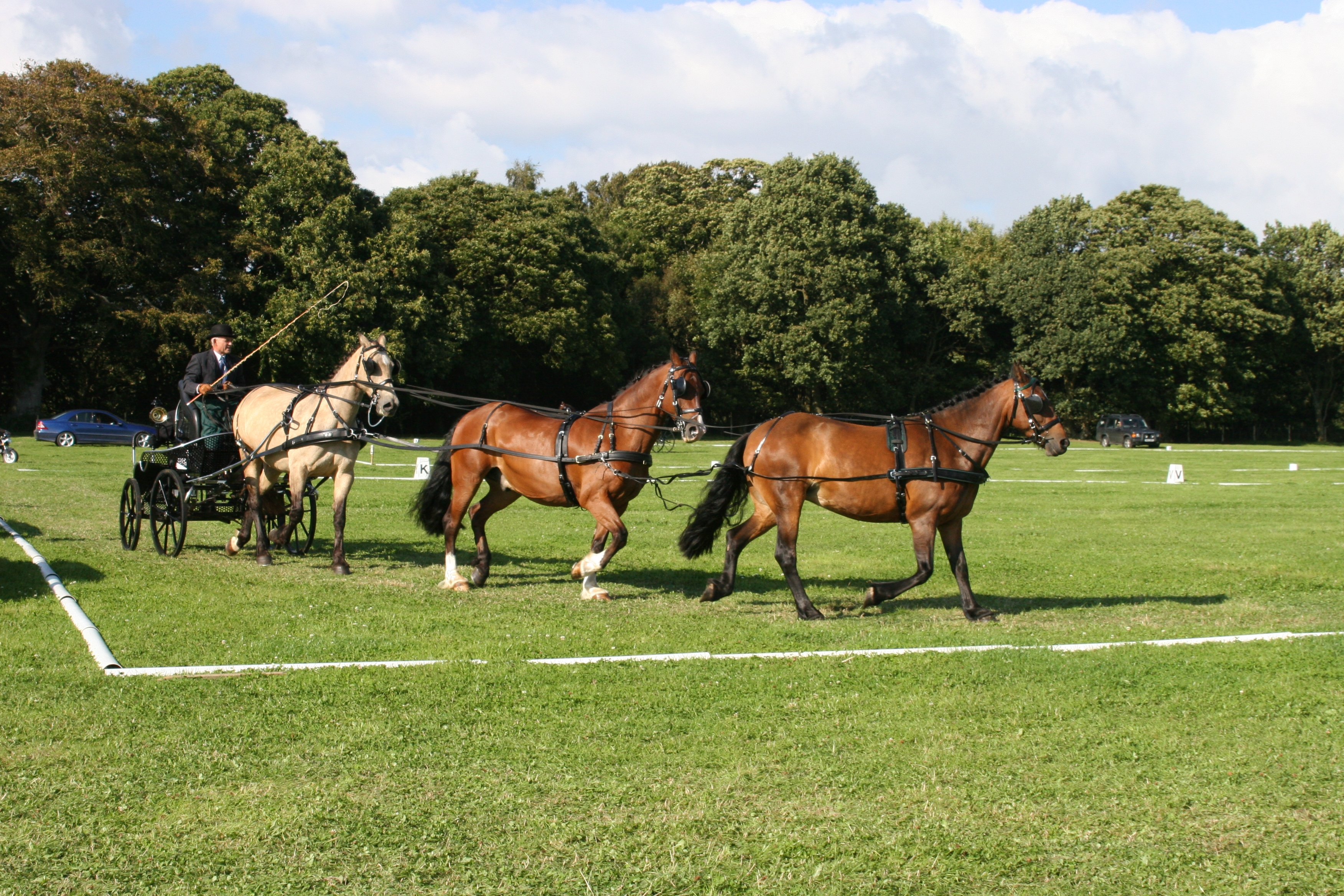 David Taylor drives a randem, three horses in line, for the first time at Normanhurst national horse driving trials, near Battle, UK